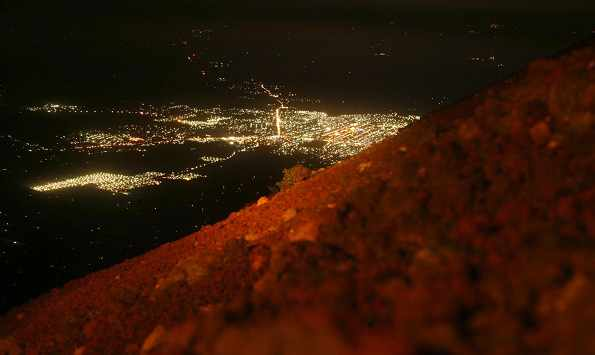 Ciudad de San Miguel, vista nocturna desde el volcán Chaparrastique, El Salvador.